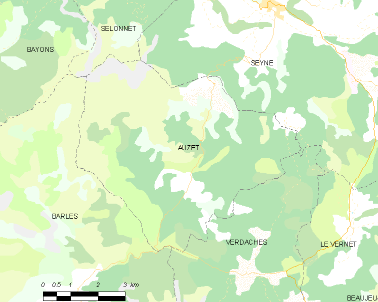 Map commune FR insee code 04017.png Légende